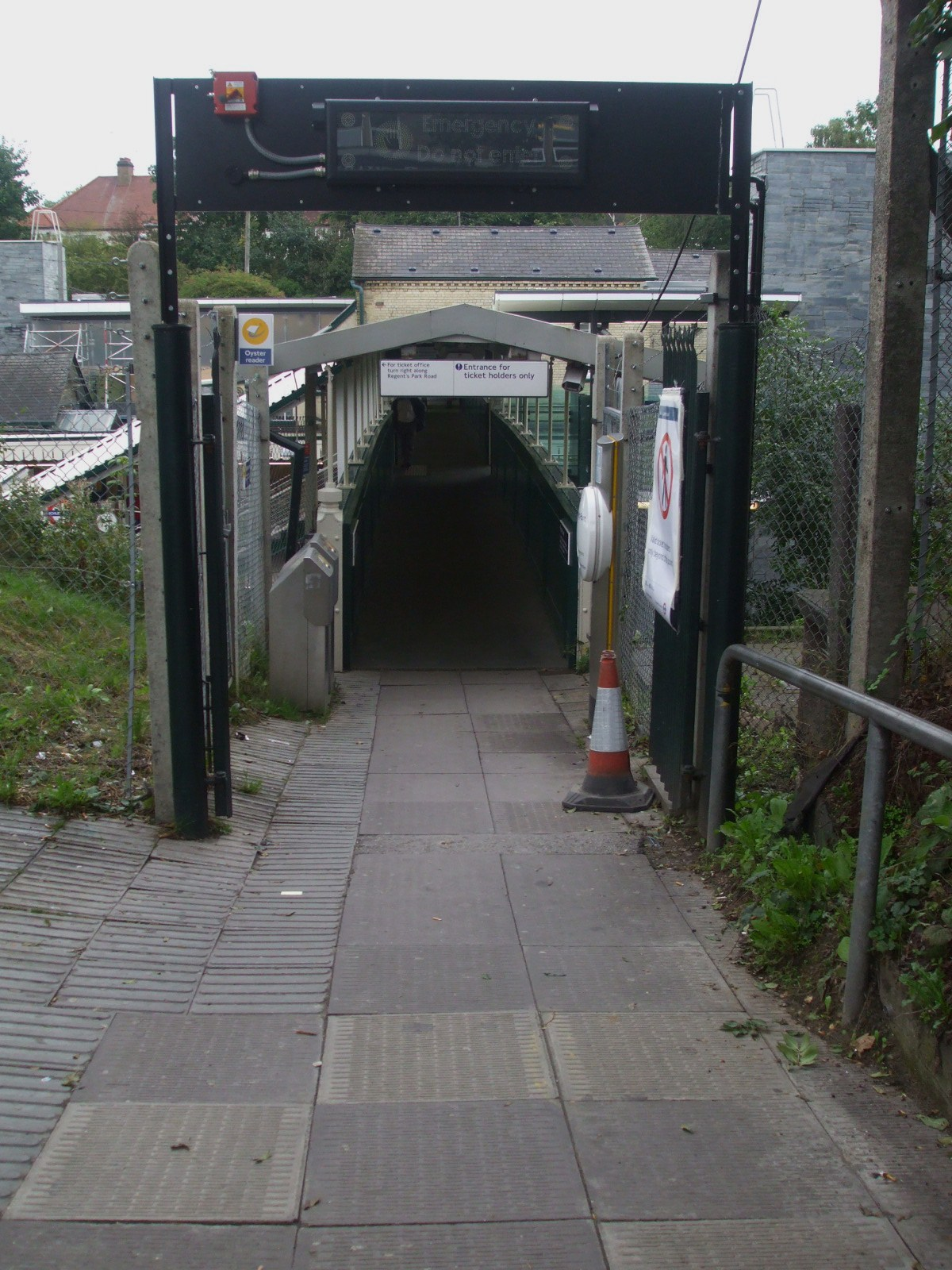 Finchley Central tube station alternative western entrance leading onto footbridge